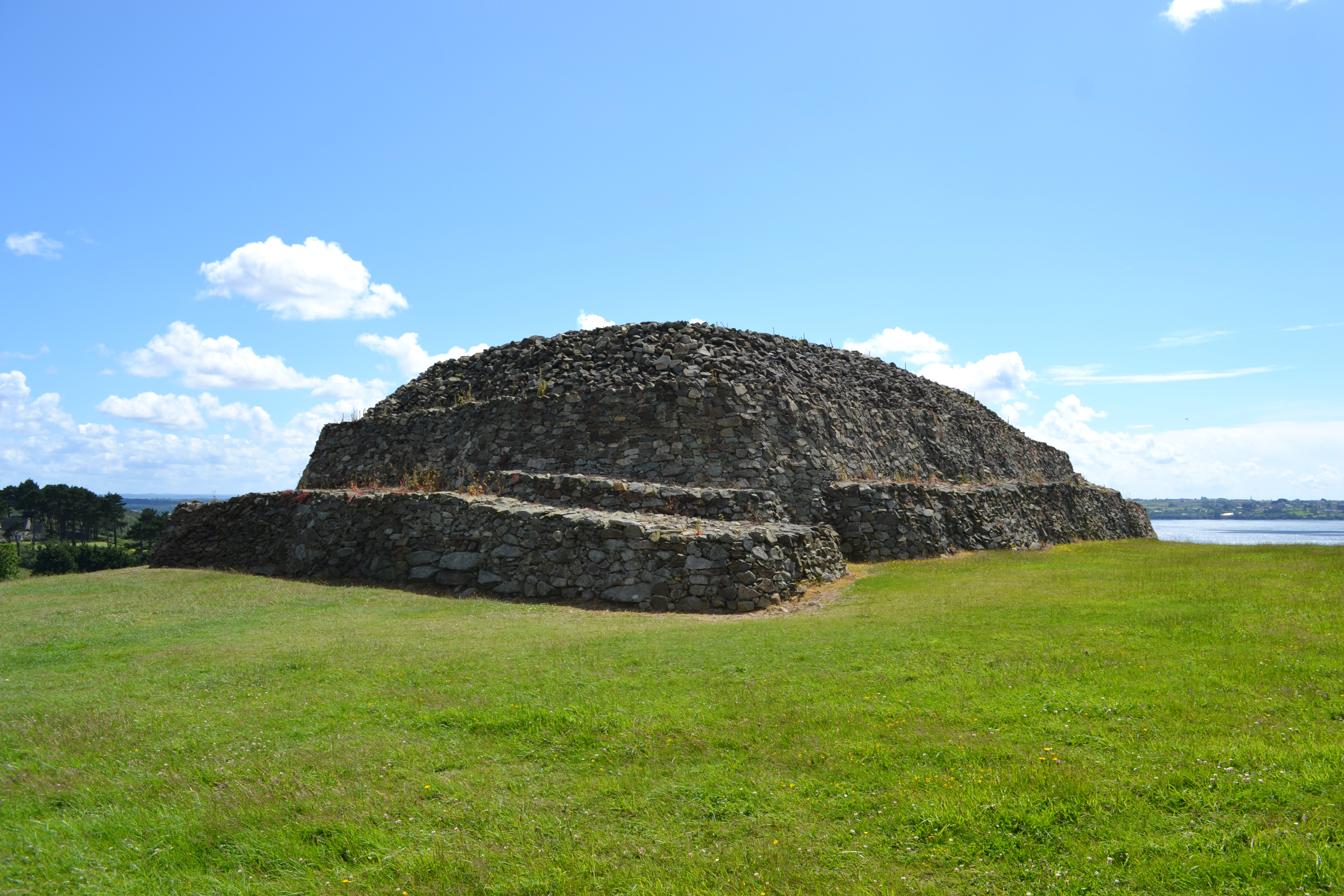 Back side of the Cairn of Barnenez (aka Tumulus of Barnenez). The bay of morlaix is in the background.